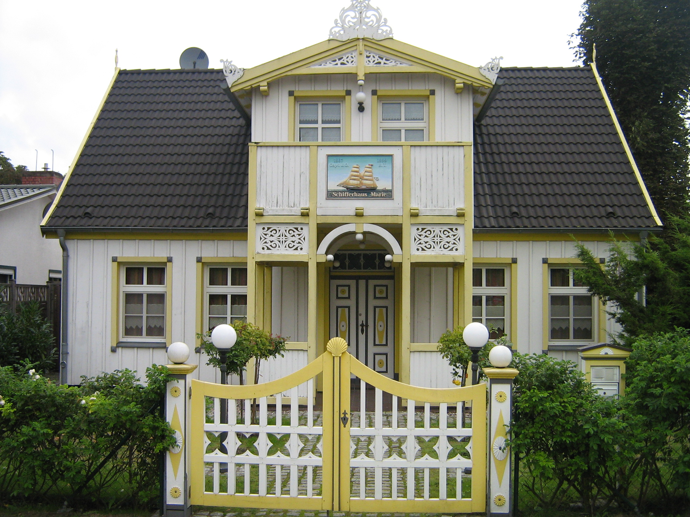 house of captian in Zingst